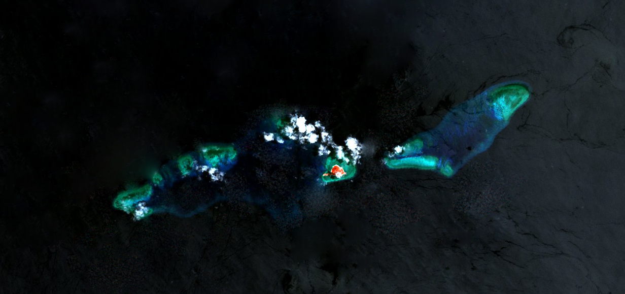 Thitu Island & Reefs, Spratly Islands